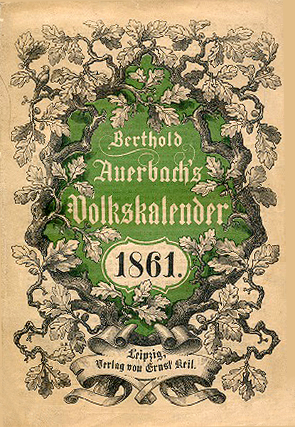 book cover of Bertold Auerbachs Volkskalender 1861